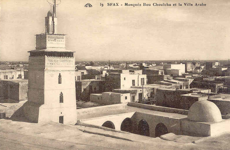 Bouchouicha mosque in the medina of Sfax